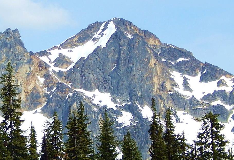 Wallaby Peak, one of many summits on Kangaroo Ridge in the North Cascades range. Seen from Washington Pass.